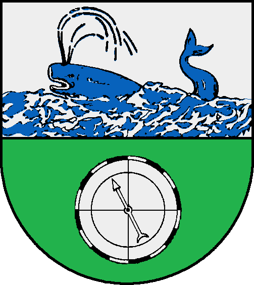 Coat of arms of the municipality List in Schleswig-Holstein, Germany.